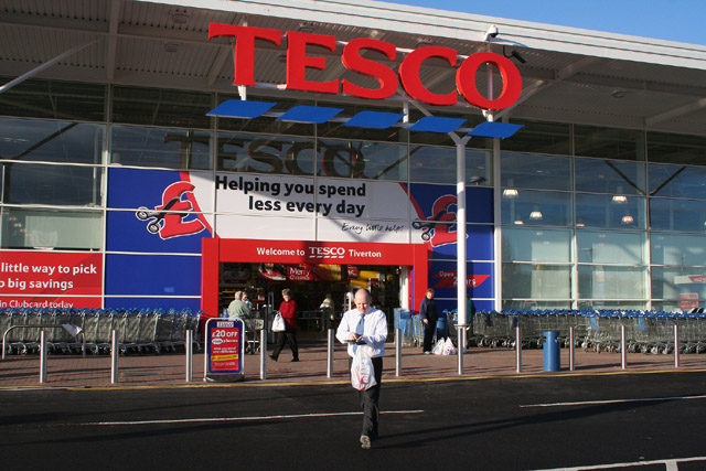 Tiverton: Tesco. The supermarket opened in autumn 2005. The associated petrol station was still under construction when this shot was taken